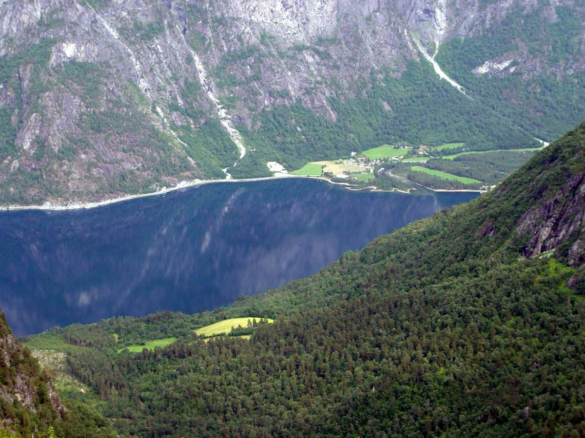 Eikesdalsvatnet is a lake in the municipality of Nesset in Møre og Romsdal county, Norway. The river is Aura